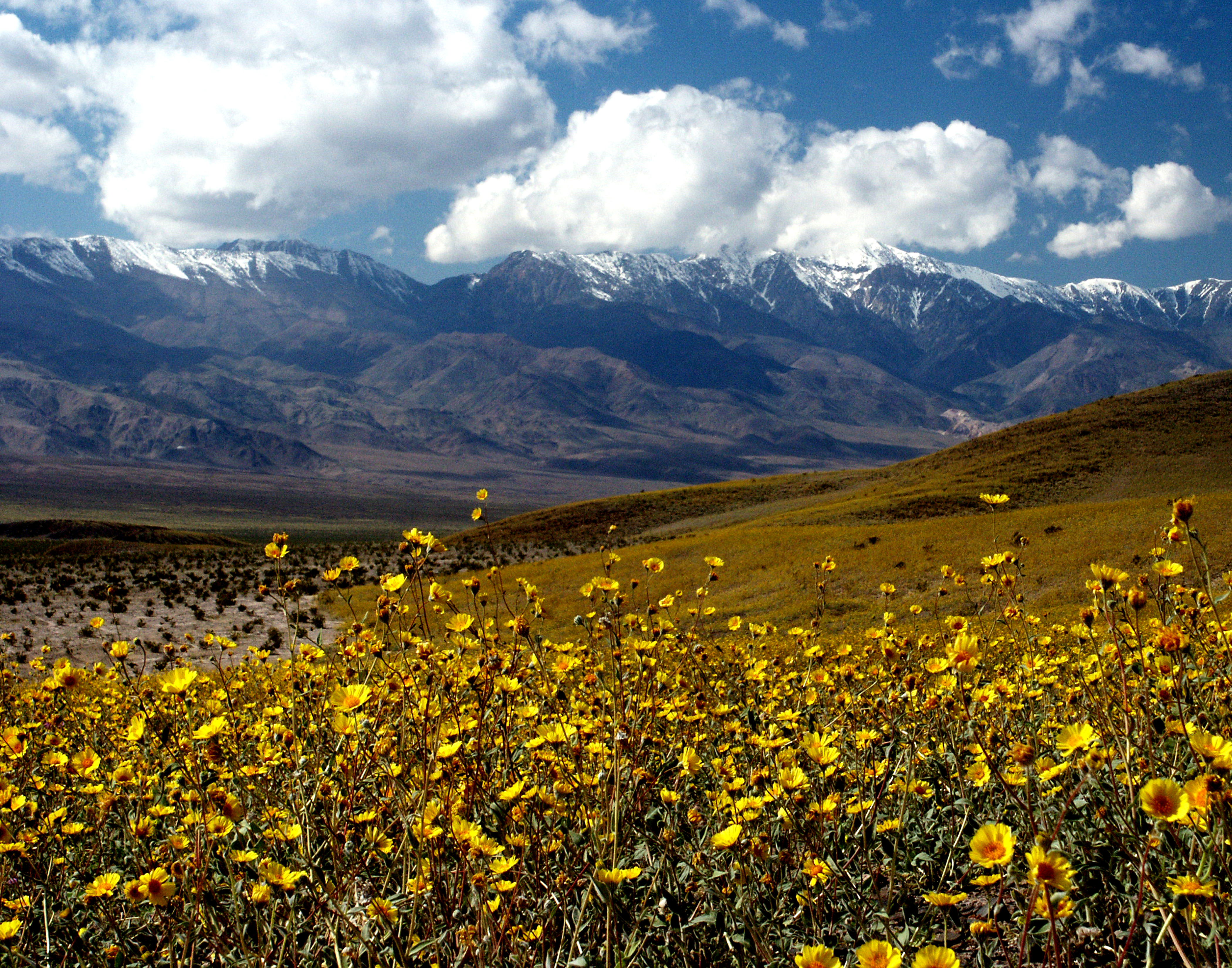 Death Valley with a tremendous display of wildflowers after an extremely wet year.